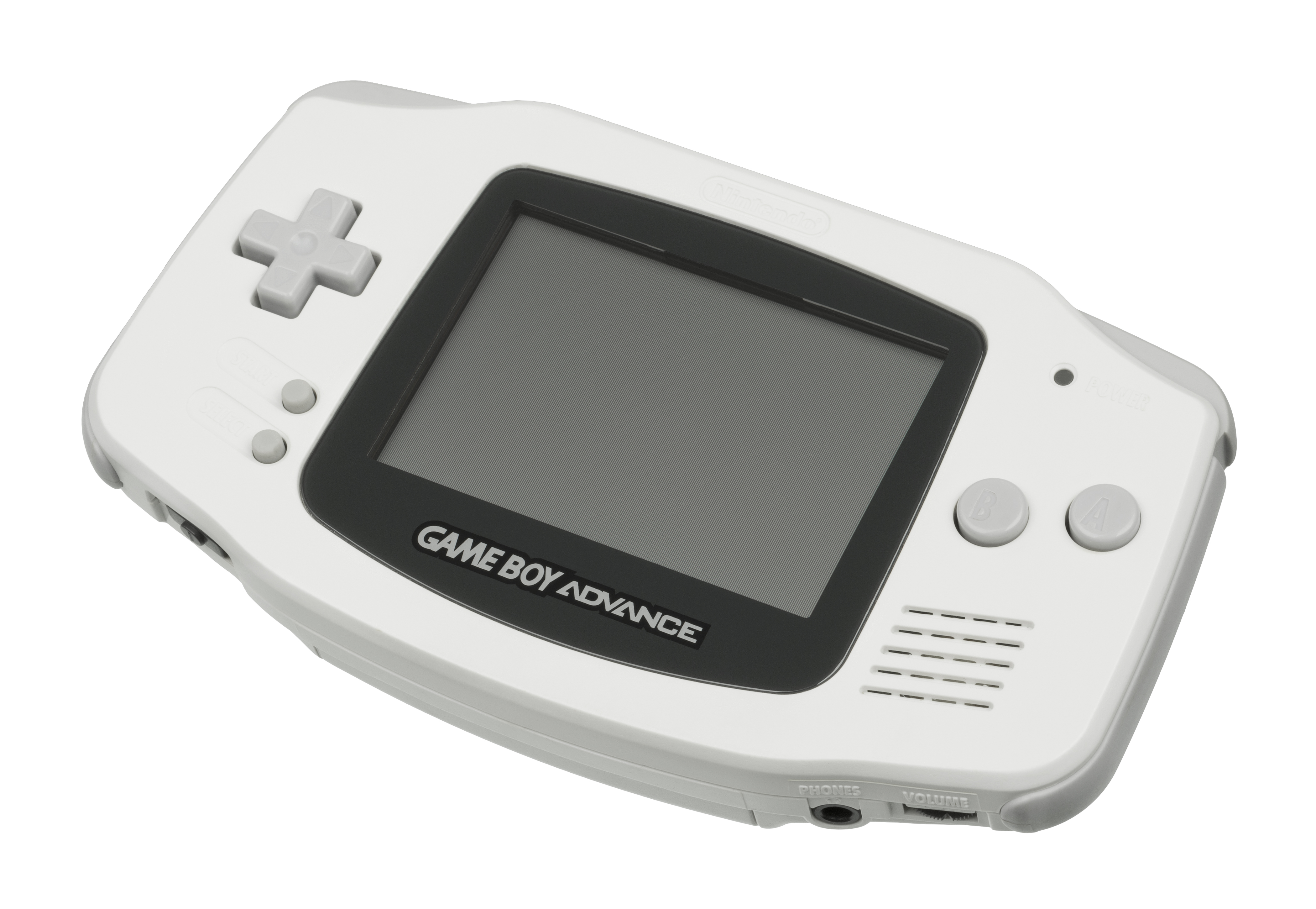 The Game Boy Advance (GBA), a 32-bit handheld gaming system made by Nintendo and released in 2001. This is the first model in the GBA line-up, which features a non-backlit color screen and runs off of two AA batteries. This is a white-colored "Arctic" model, that was one of the three colors available for the North American launch.